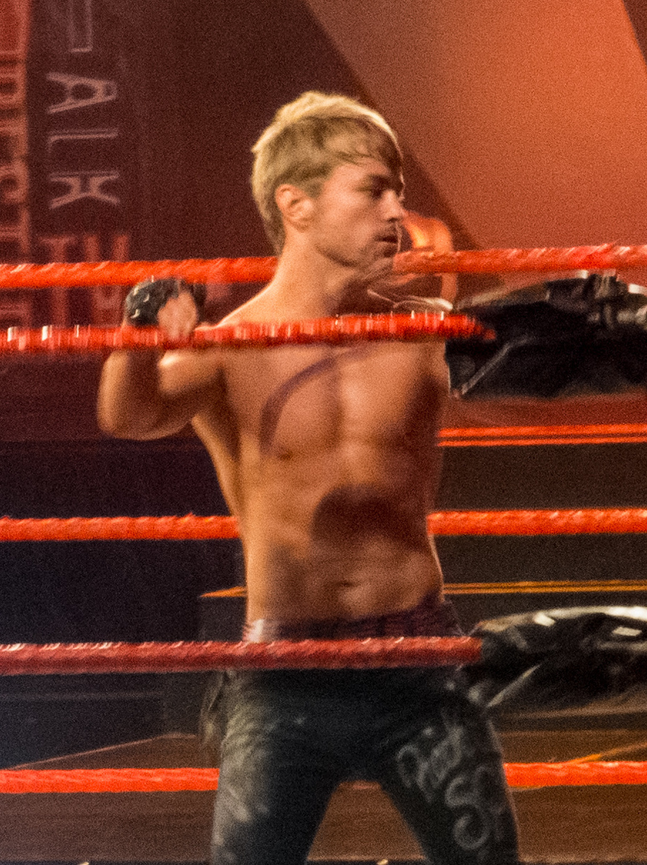 Professional wrestler Rockstar Spud (James Curtin) at IPW:UK's Revolution show in April 2012. Cropped from original.